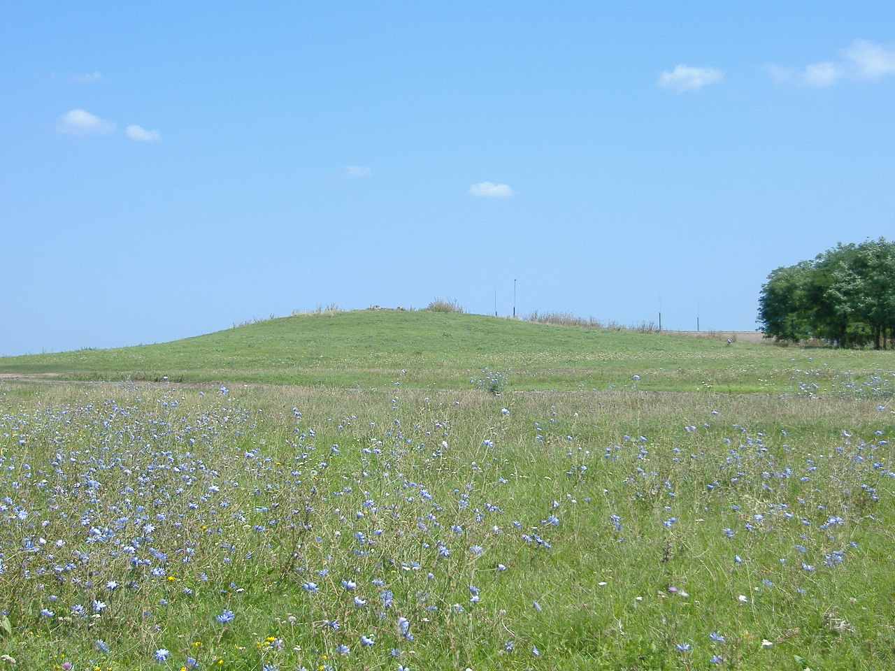 The Szálkahalom (Splintermound); Hortobágy National Park, Hungary